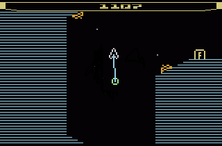 Screenshot from the Atari 2600 game Thrust by Thomas Jentzsch